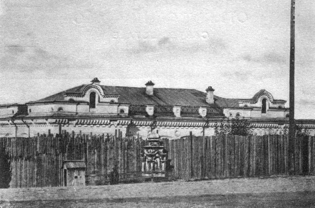 Ipatiev House, beginning in 1918. The royal family is still alive.